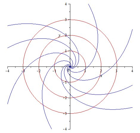 example of isgonal trajectories (45°), one of the families being circles, the other spirals